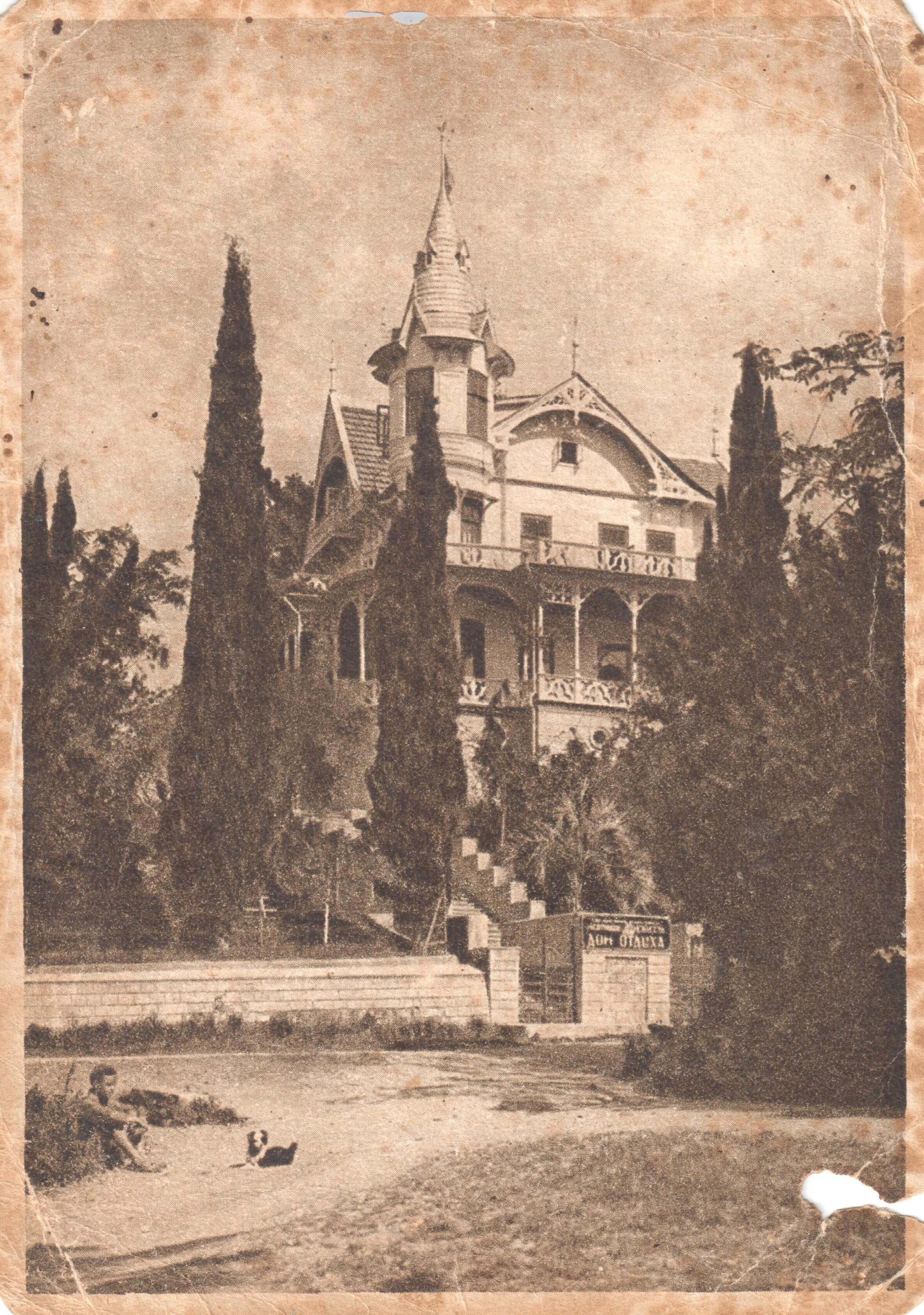 Resthome Rabiss of werkes of arts in 1927-1930, IZOGIS postcard